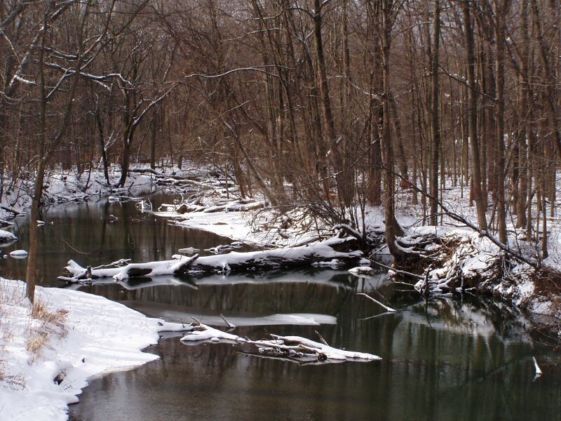 Winter along the Little Calumet River in Indiana Dunes Nat'l Lakeshore